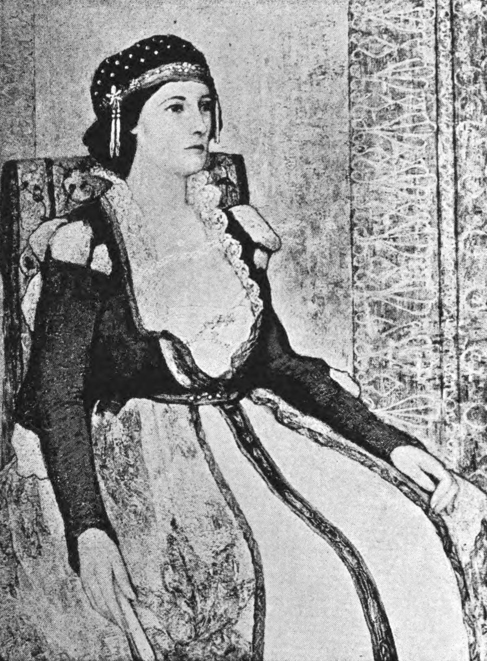 b&w reproduction of A Venetian Lady painting of a woman in costume by Florence W. Gotthold